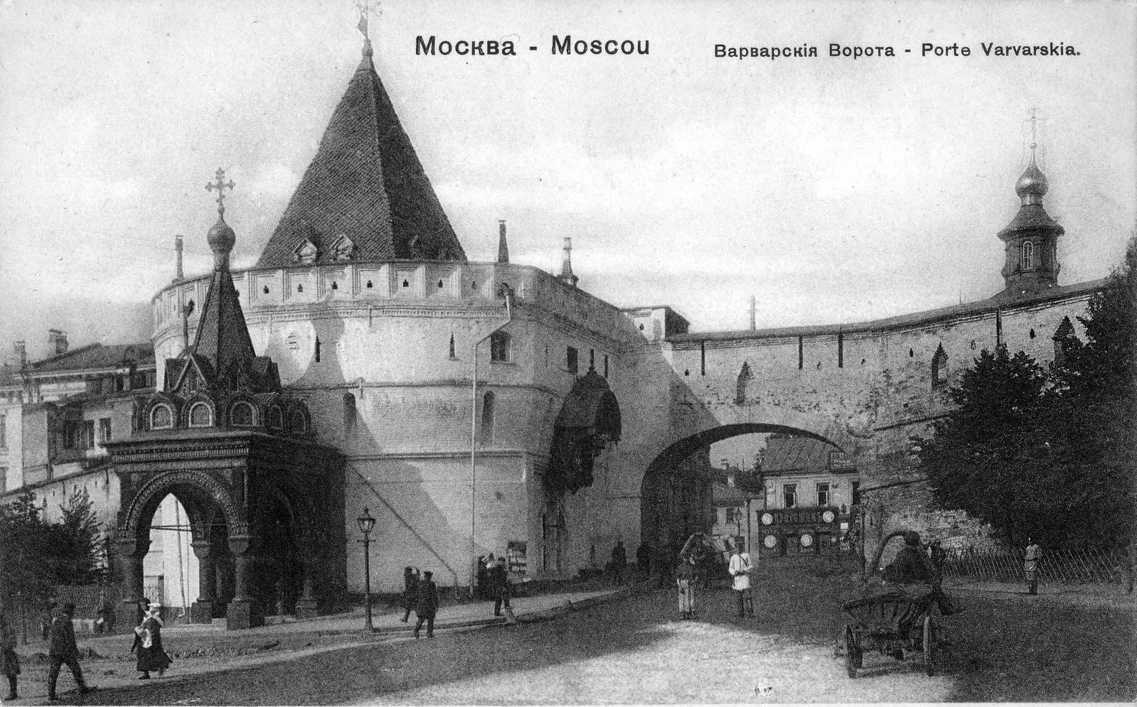 Varvarsky Gate of Kitai-gorod